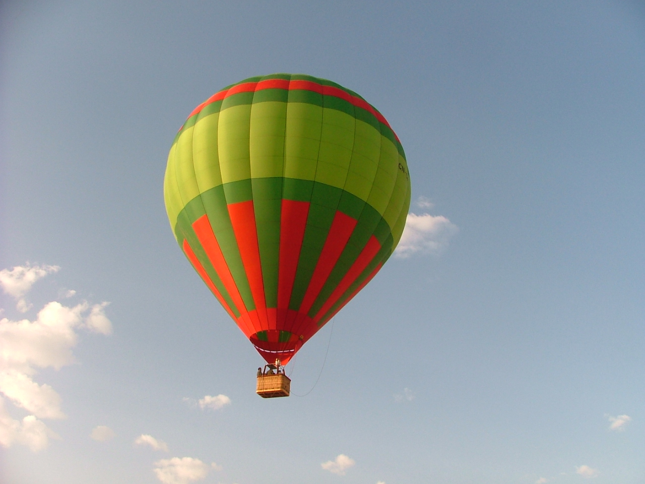 Hot air balloon in Morocco.